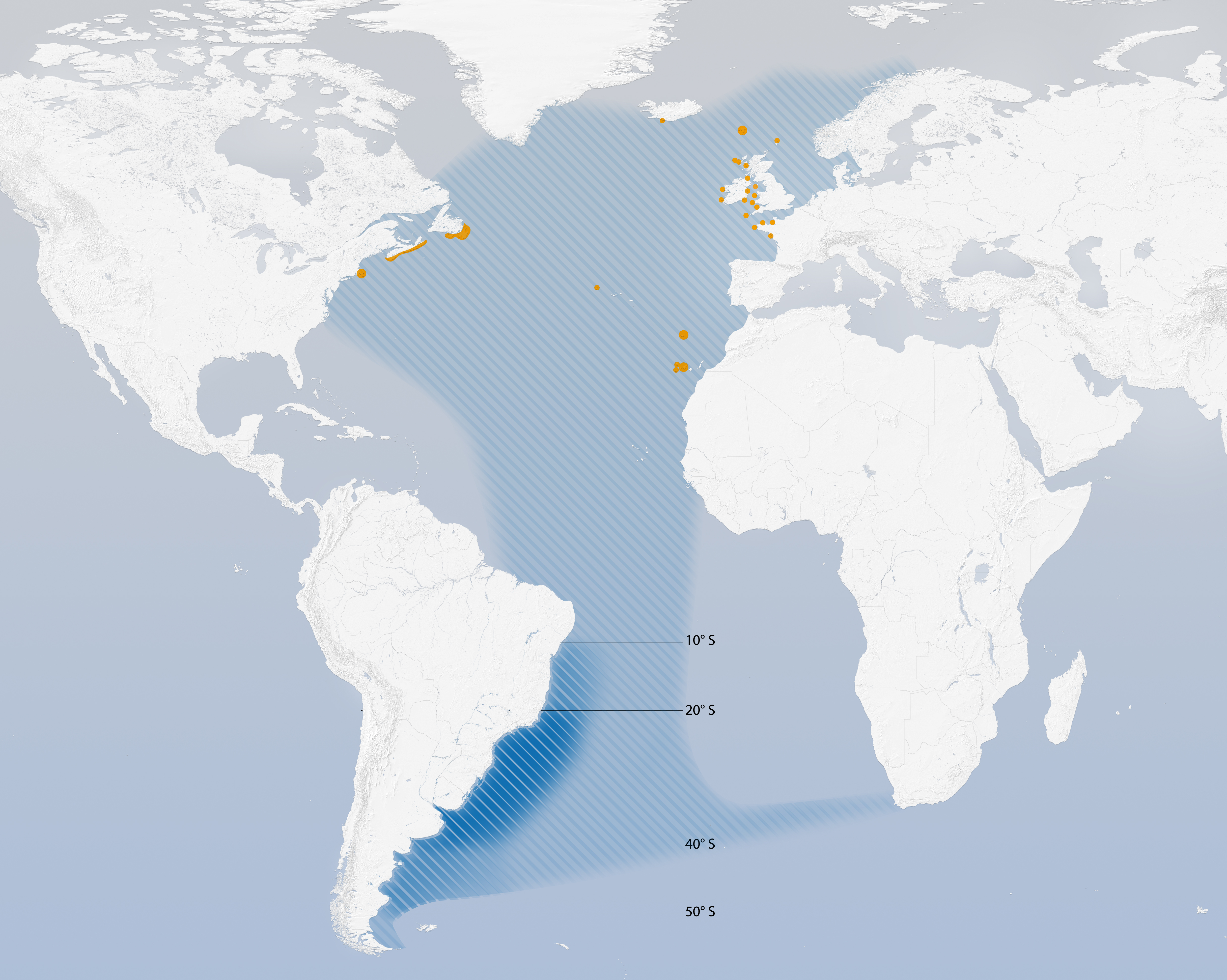 Distribution of Manx Shearwater (Puffinus puffinus): orange – breeding colonies; light blue – winter range, medium blue – main wintering areas (between 10° and 50° S), dark blue – concentration of wintering birds (between 20° and 40° S)